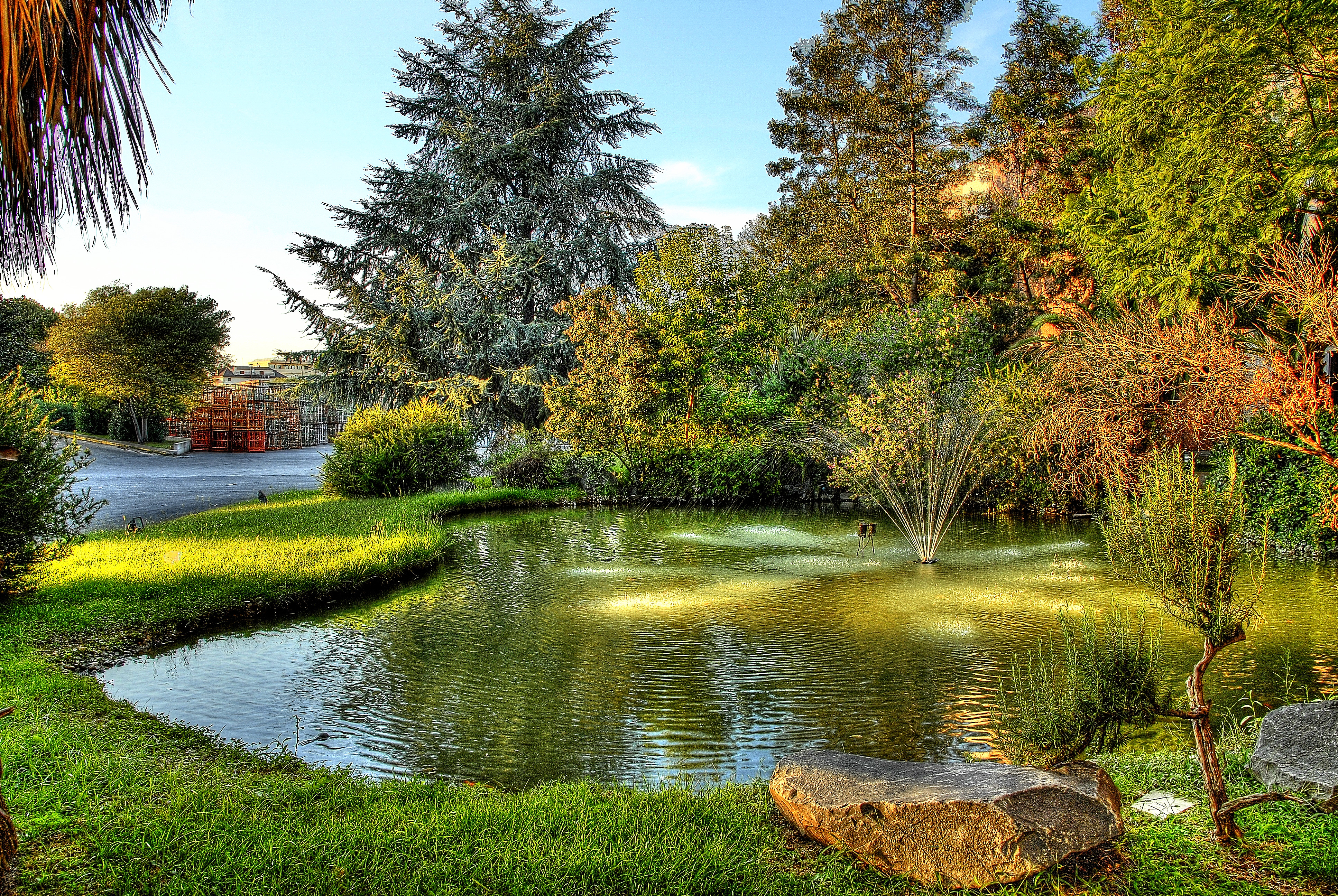 HDR - This tiny lake is located within the company where I work: DSV Aprilia Italy